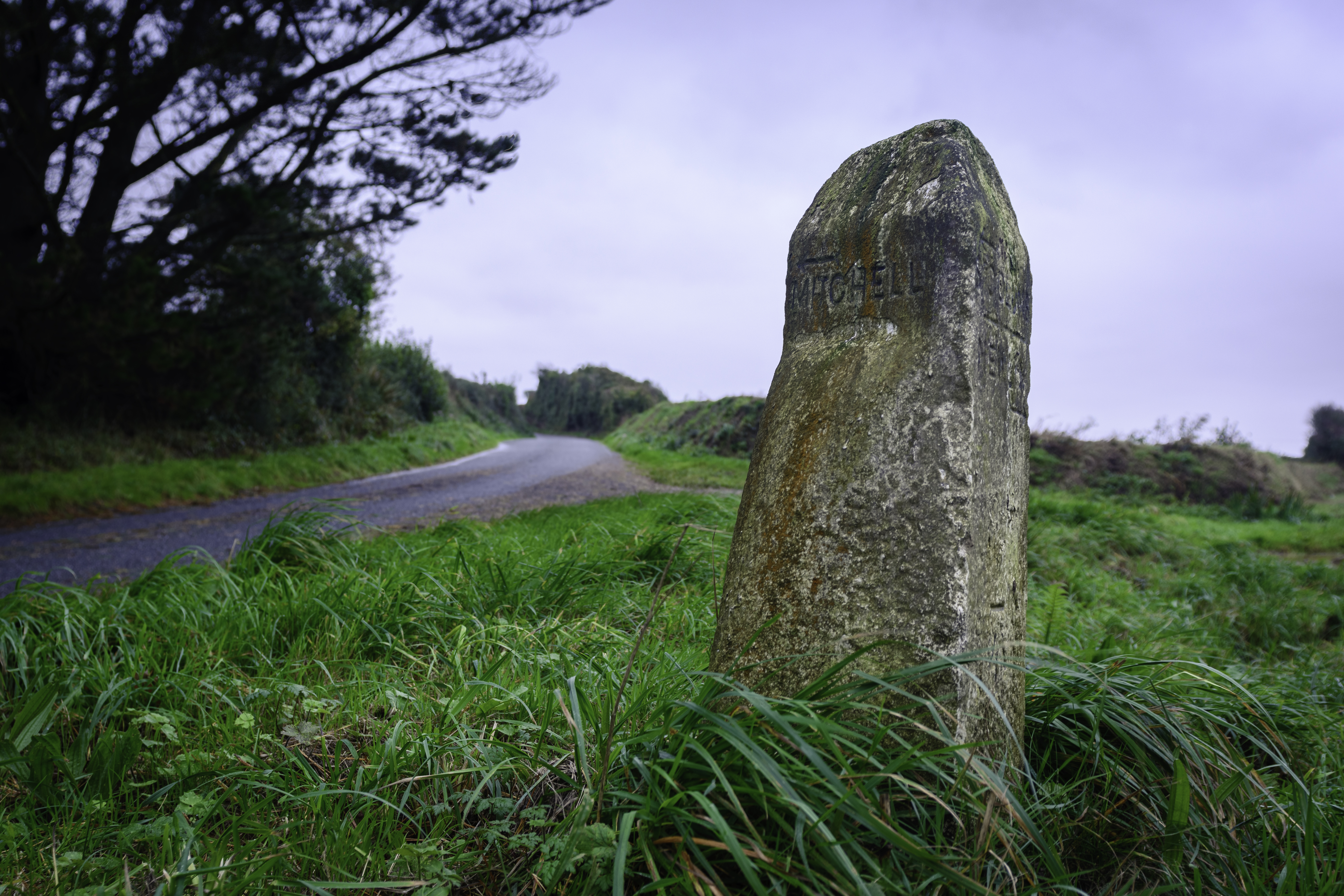 Waymarking Stone Wikidata has entry Q26614059 with data related to this item.